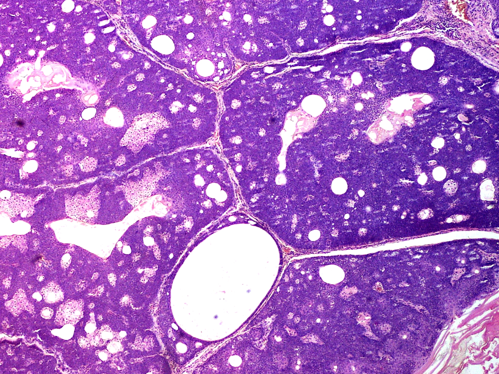 Sebaceoma (sebaceous epithelioma)